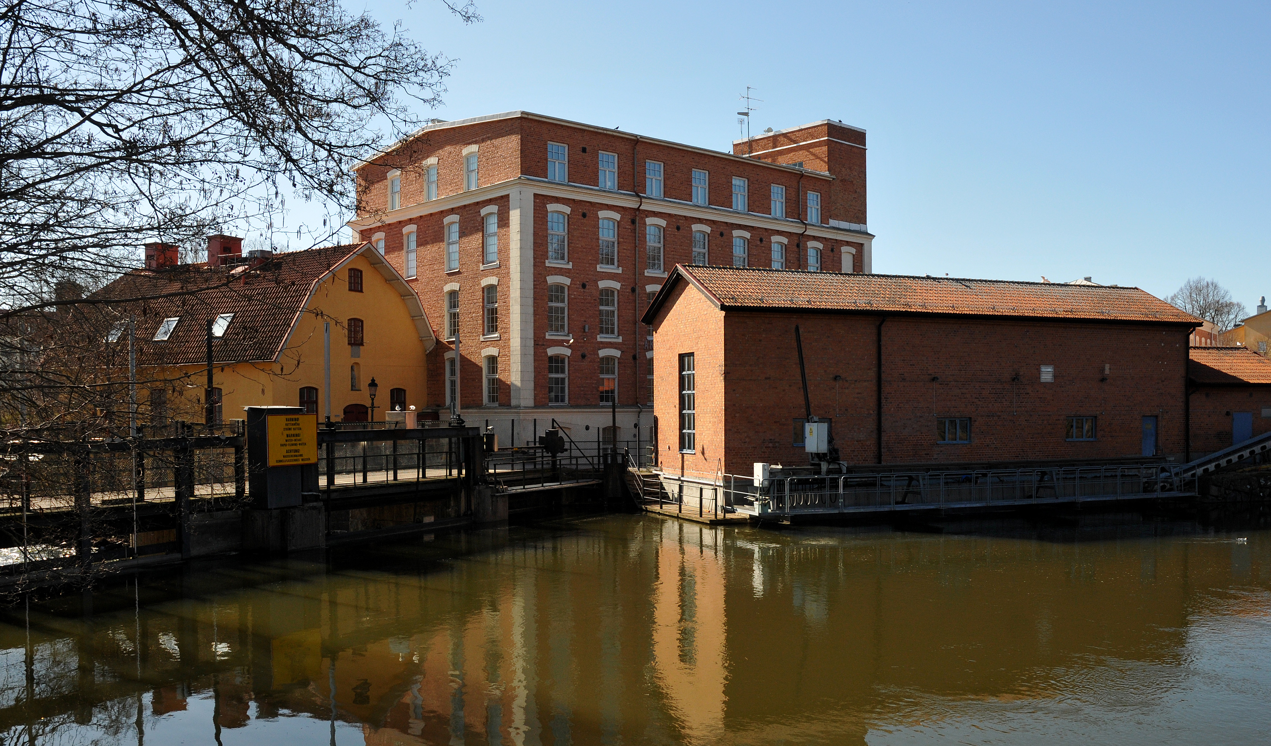 The fall is a waterfall in Nyköpingsån. The fall is about 2.5 meters high and has been used as a power source since the Middle Ages to, among other things, mills, blast furnace, iron bar hammer.